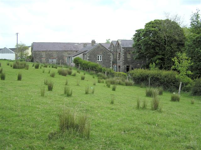 Pettigoe Mill No longer in production